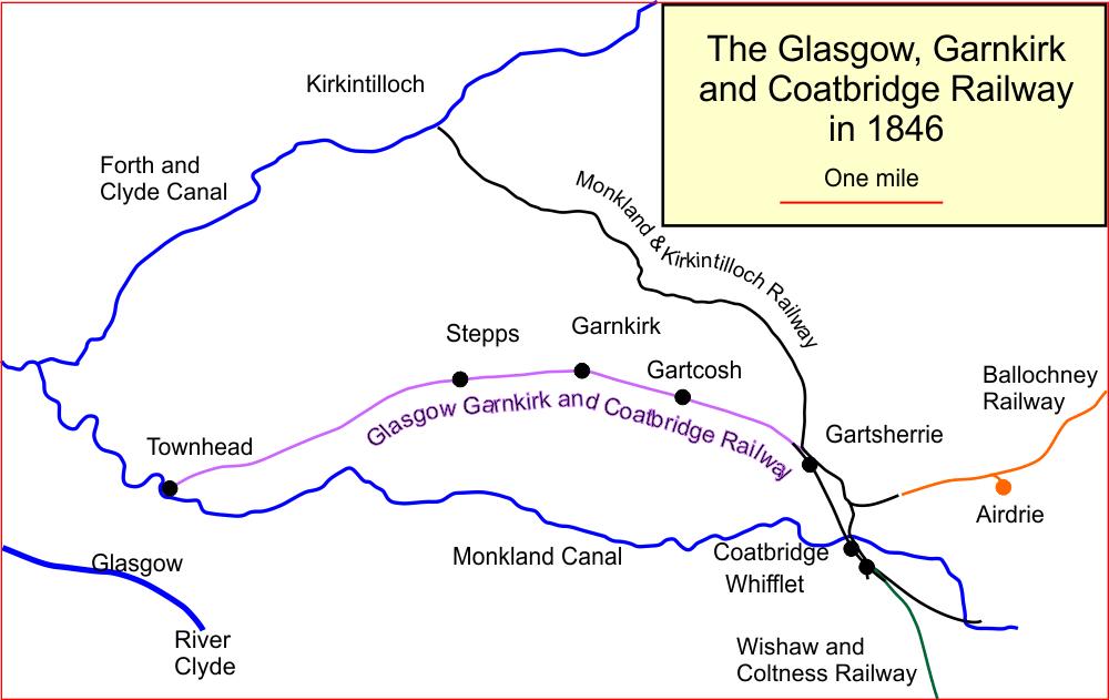 Map of the Glasgow Garnkirk and Caotbridge Railway sysme in 1846